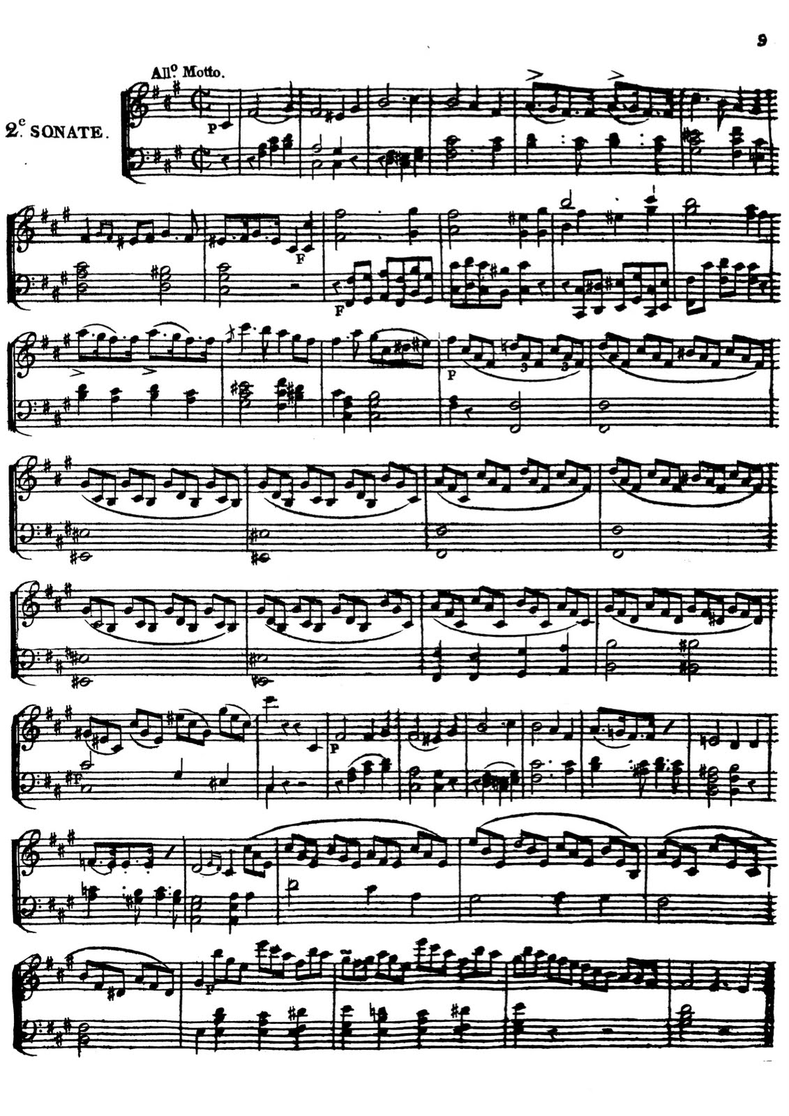 First page score, Piano Sonata opus 4/2